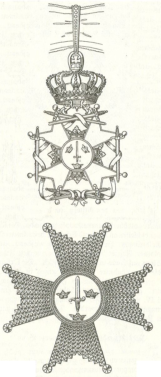 Collar and star of the Order of the Sword, Sweden